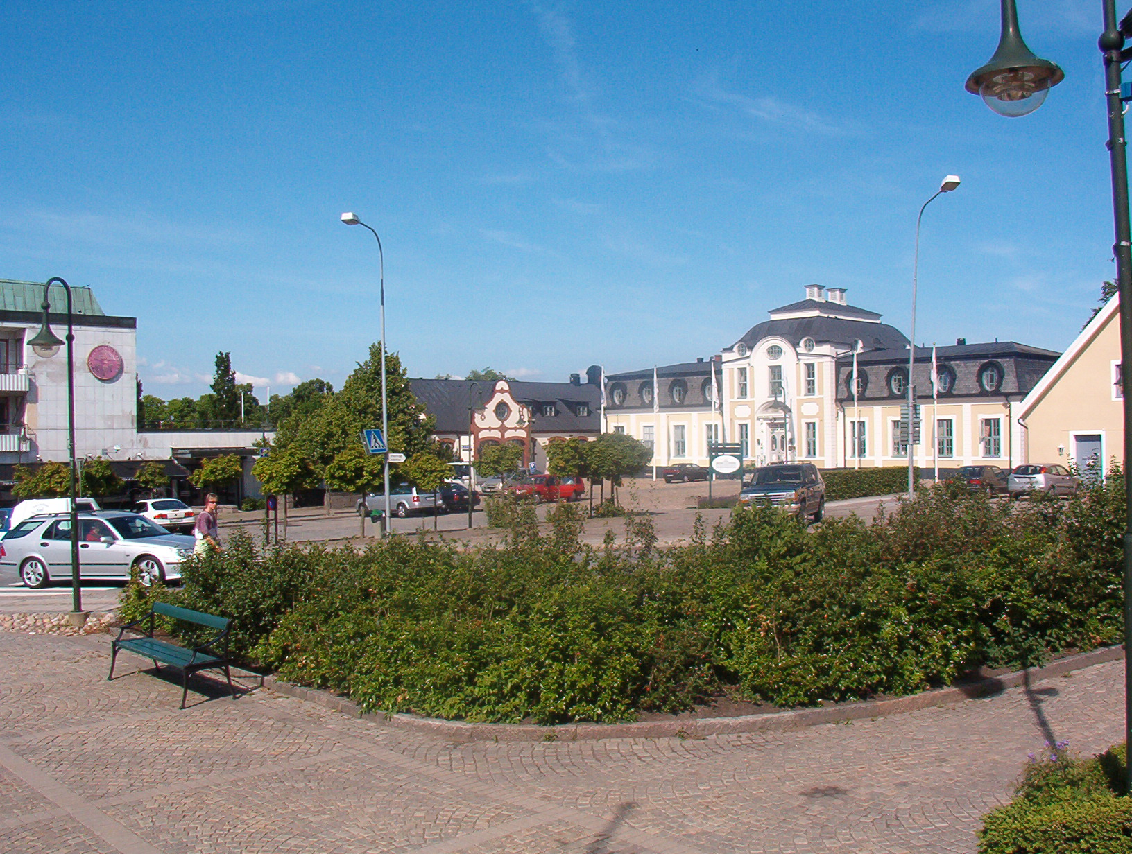 Second image of Sjöbo in Sweden Date as of upload